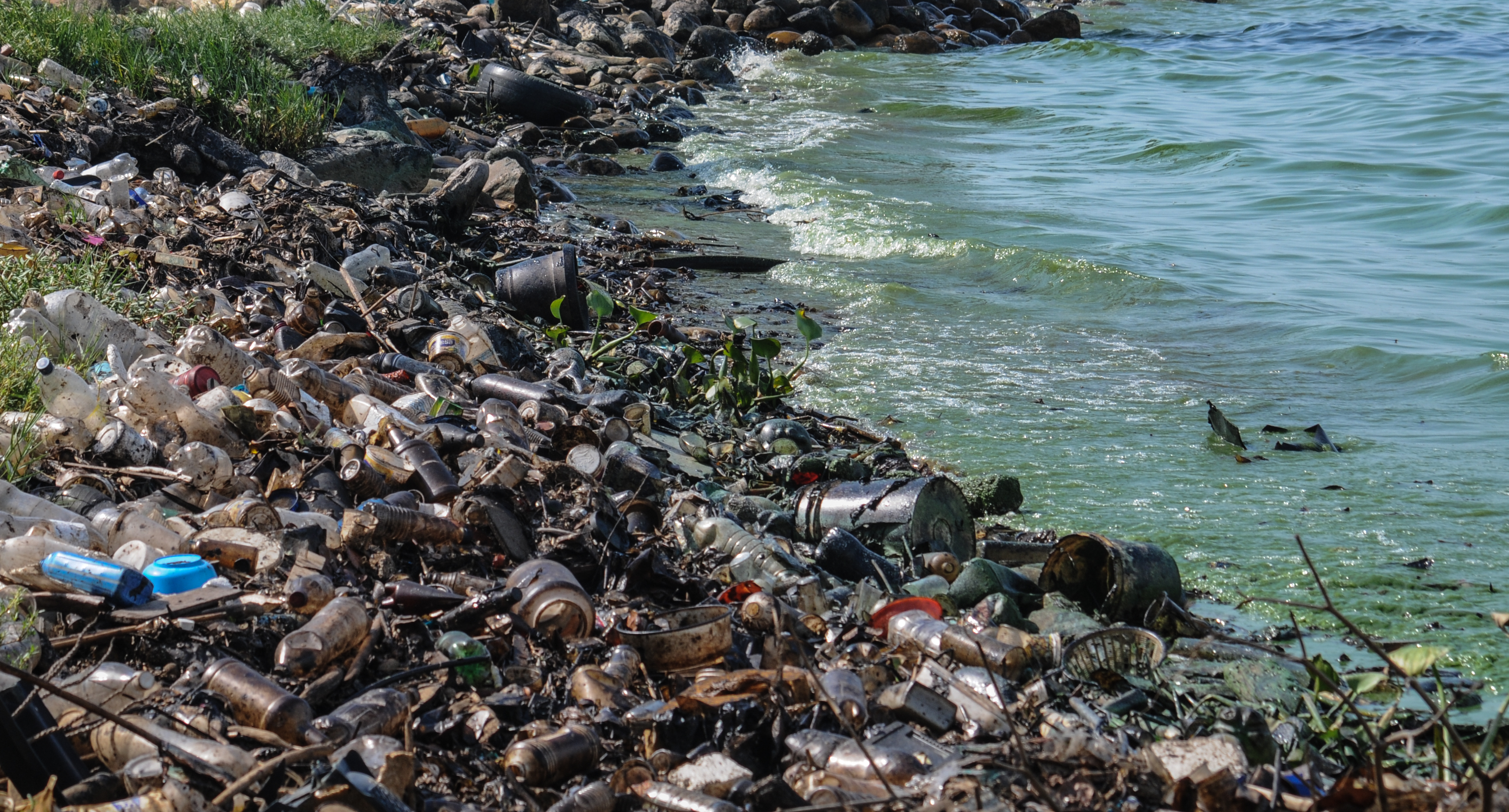 Maracaibo Lake situated in Estado Zulia Venezuela is the biggest lake of South America with an area of 13820 km2[1], it is frequently to look this kind of pollution along of its coasts. It has lemna, oil spill, human waste as main pollutant. The uncontrolled agricultural activities, mining and industrial done in Maracaibo Lake Basin had started a rapid process of eutrophication on this place[2].